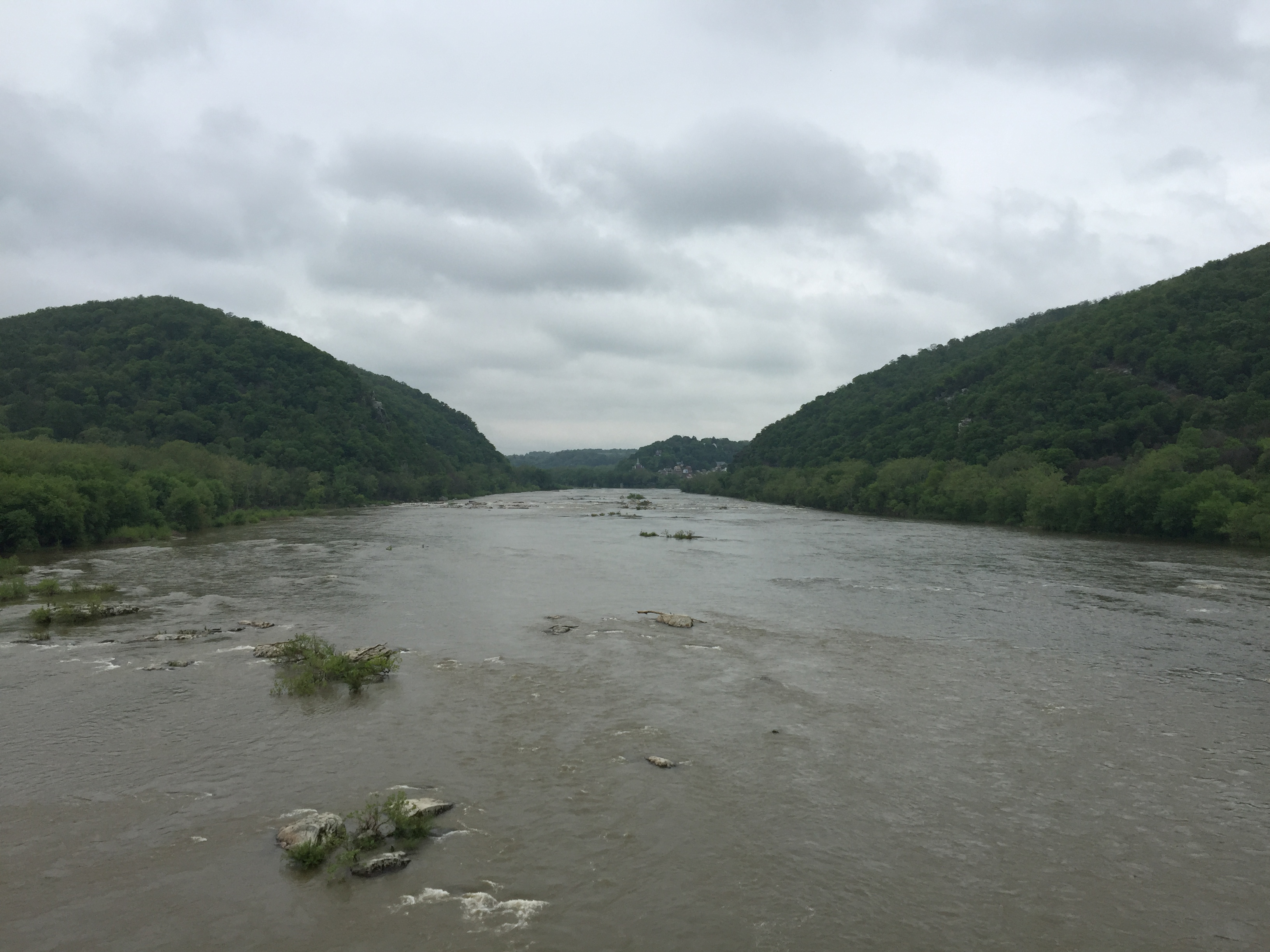 View west up the Potomac River towards the Potomac Water Gap from the Sandy Hook Bridge (U.S. Route 340) between Washington County, Maryland and Loudoun County, Virginia